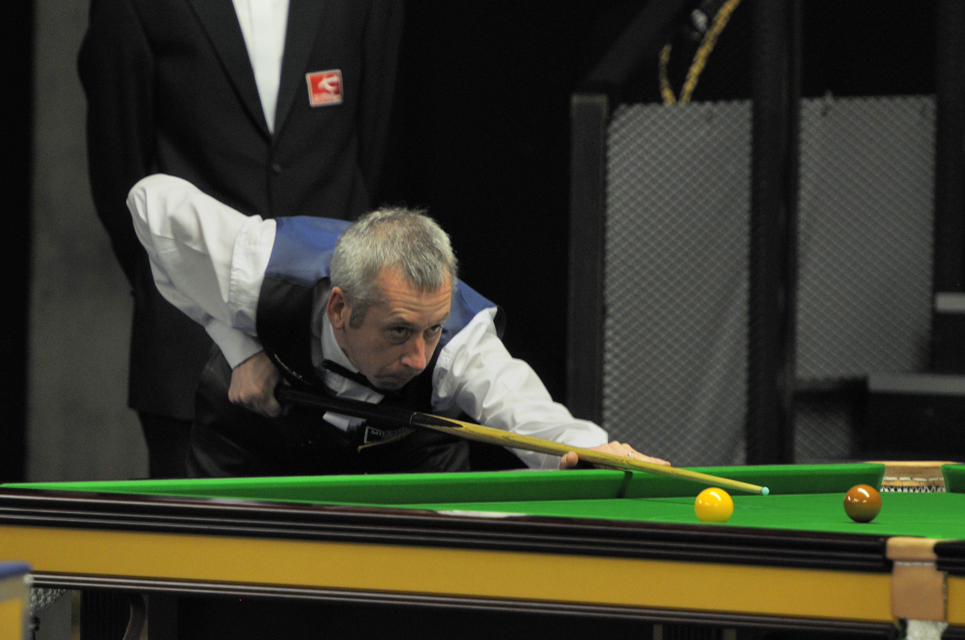 Picture taken in Berlin during the Snooker German Masters in 2013. Nigel Bond.